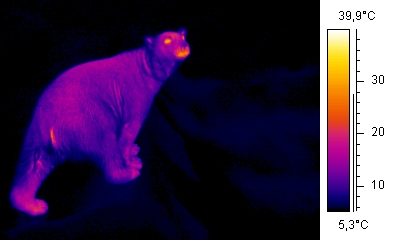 thermogram (infrared image) of a polar bear